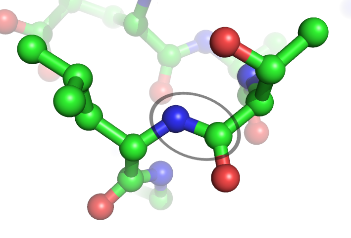 A peptide bond (circled) between Leu and Thr in a protein structure. Green=carbon, red=oxygen, blue=nitrogen. Hydrogens atoms are omitted for clarity.